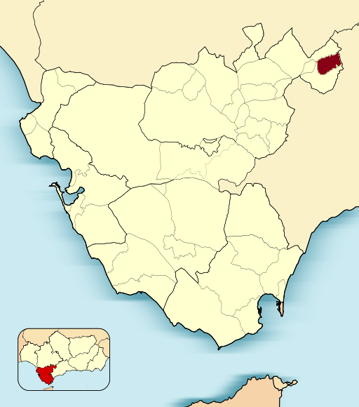 Municipal locator